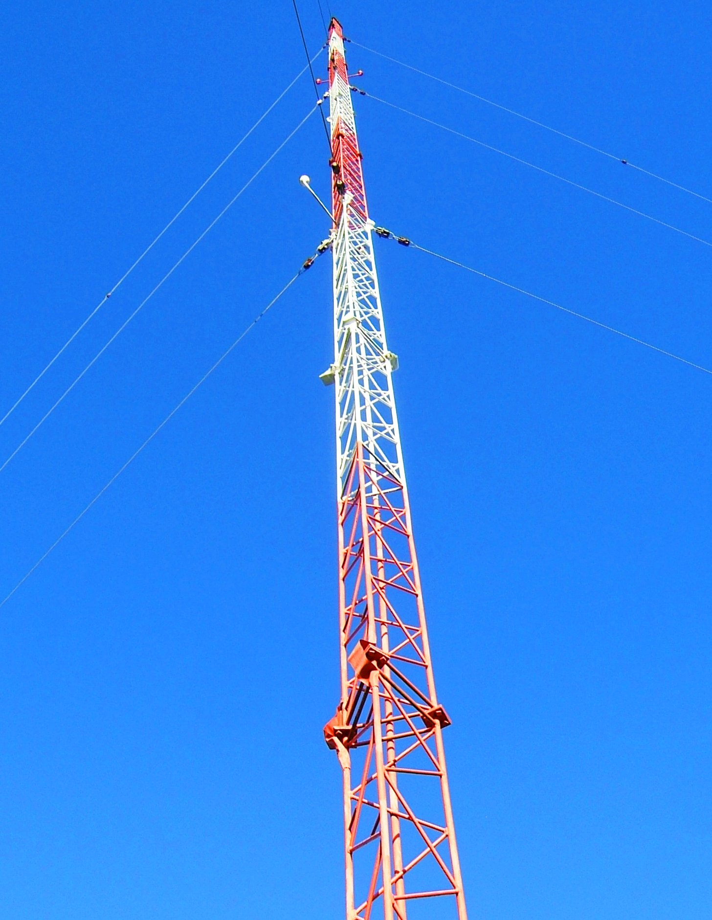 Antenna tower of AM radio station KBRC, located in Mount Vernon, Washington state, USA. It currently broadcasts on 1430 kHz with a power of only one kilowatt. This common type of broadcasting antenna is a quarter-wave "mast radiator"; the 200 ft (61 m) tower itself is connected to the radio transmitter and serves as the radiating element. The base of the antenna is supported on a sturdy ceramic insulator, which isolates it from the ground. The separate sections of the tower are tied together electrically at the joints by copper strips (visible at bottom) to ensure it is a continuous conductor. The supporting guy wires are insulated where they attach to the tower by porcelain strain insulators. The full antenna array consists of two identical towers, fed 55° out of phase to create a directional pattern.